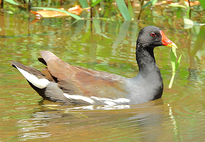 Common moorhen (Gallinula chloropus) Photograph by Shantanu Kuveskar Location : Mangaon, Raigad, Maharashtra, India